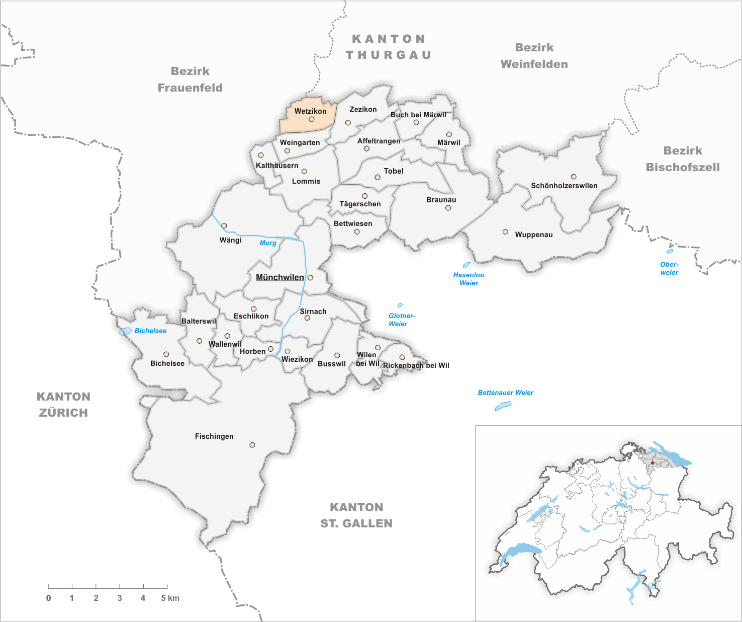 Municipality Wetzikon